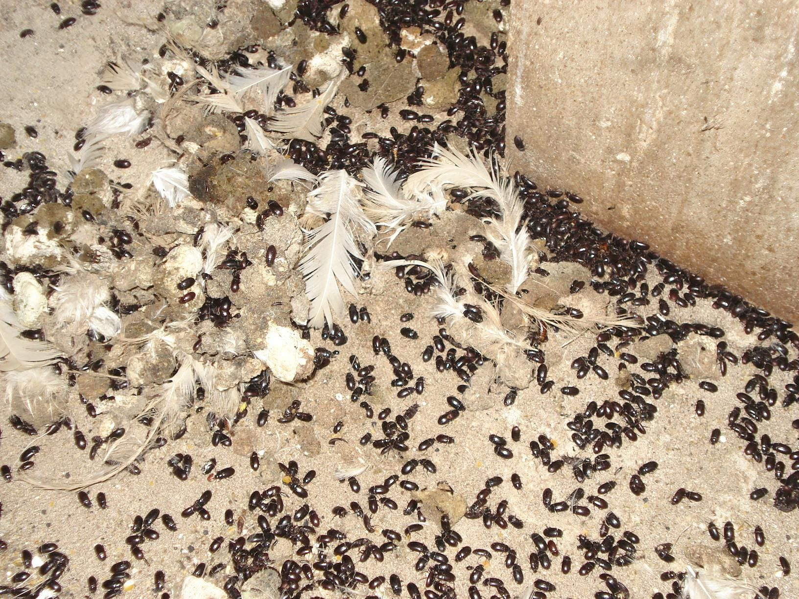 The tenebrionid Alphitobius diaperinus in poultry facility in Minas Gerais, Brazil.